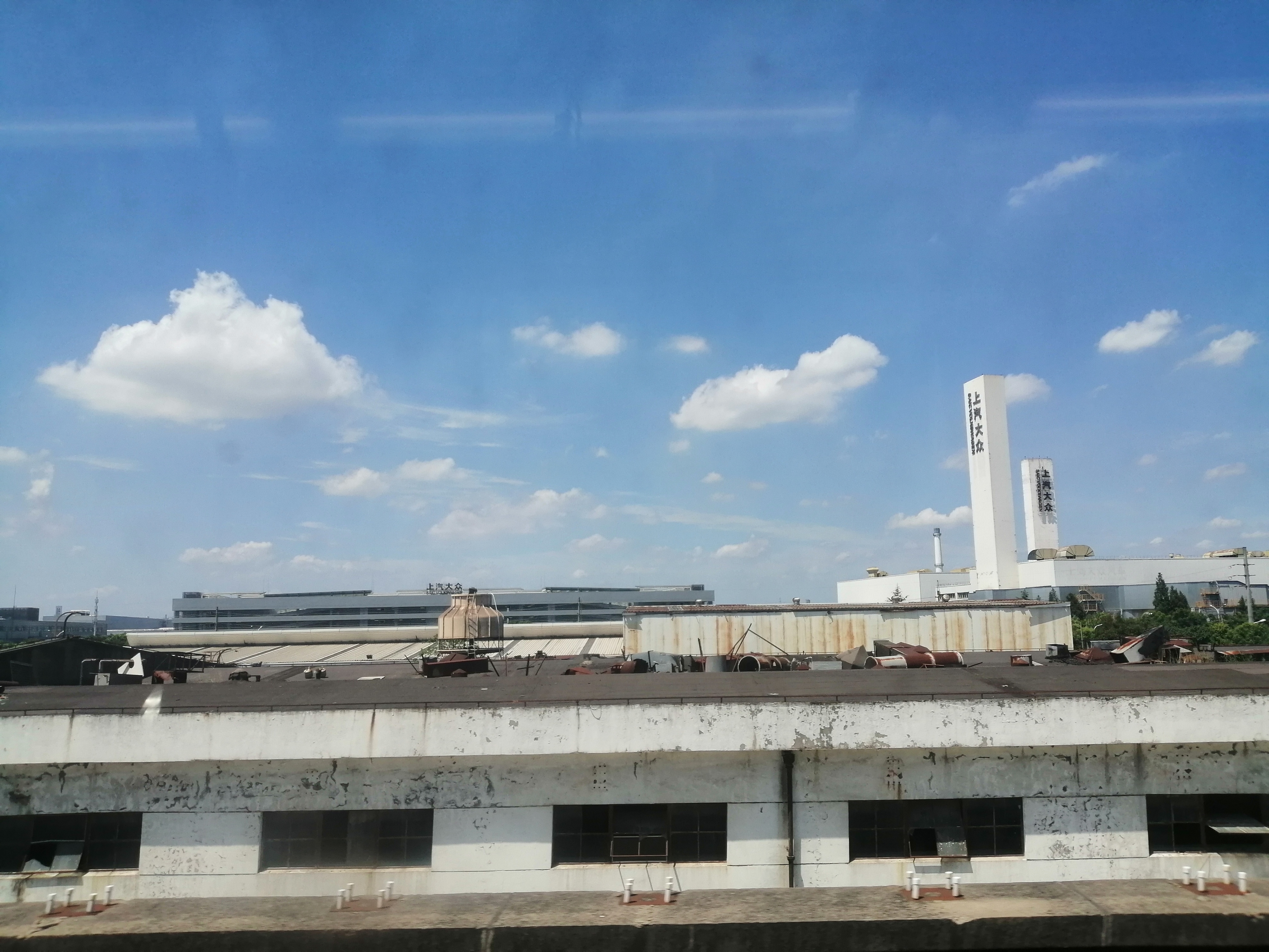 Taken from Line 11's view. Today's weather is very good, and I love it!